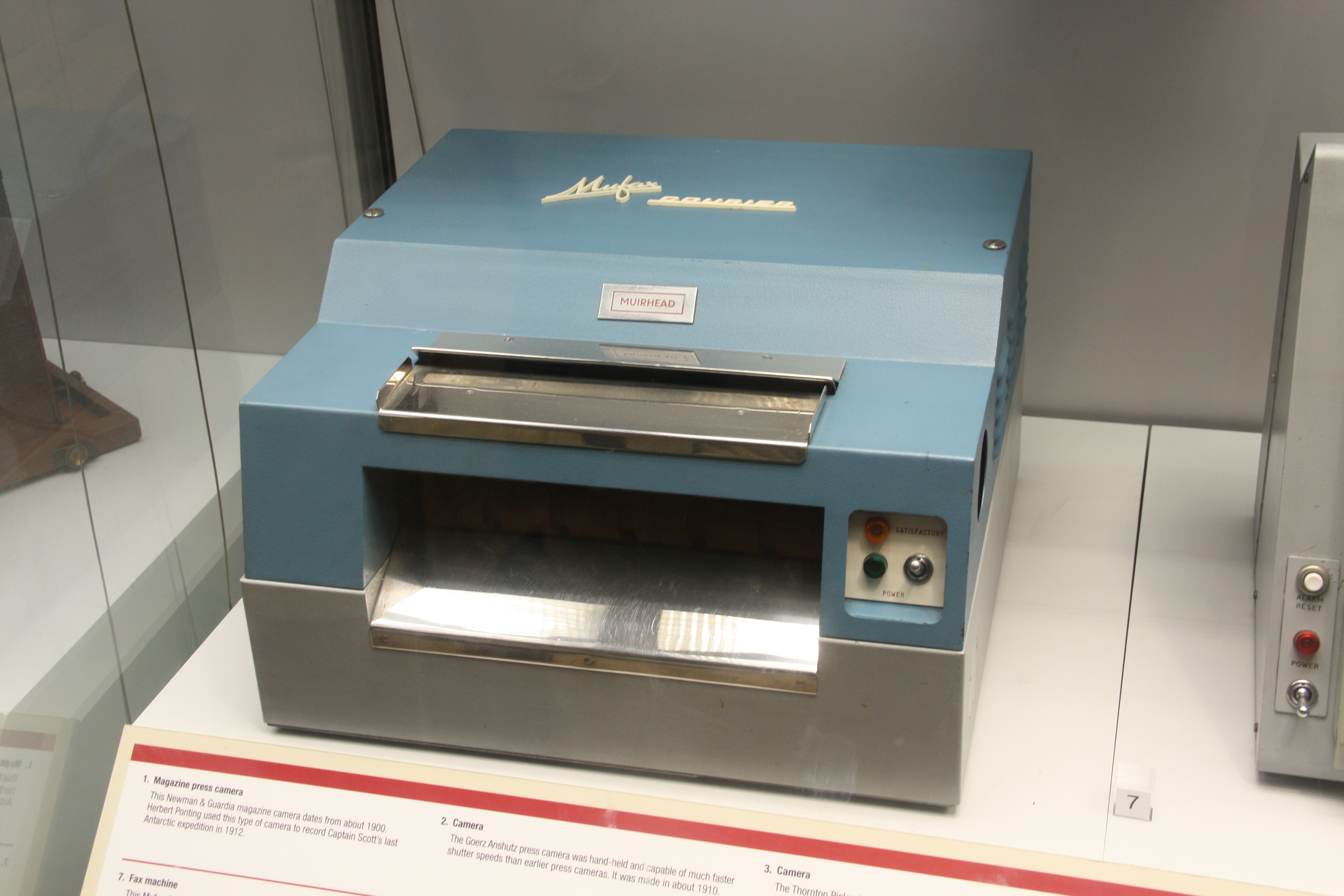 Sending half of Mufax Courier fax machine by Muirhead & Co. (1975)